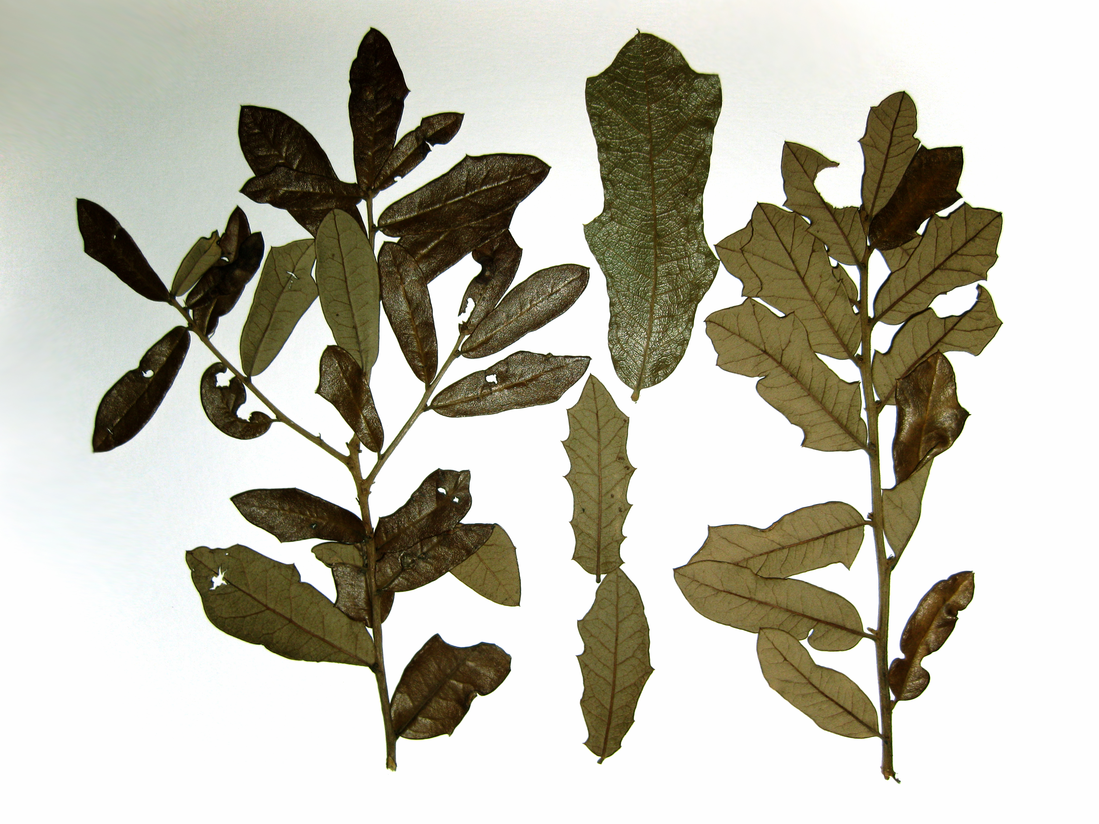 Quercus minima specimen from personal herbarium.